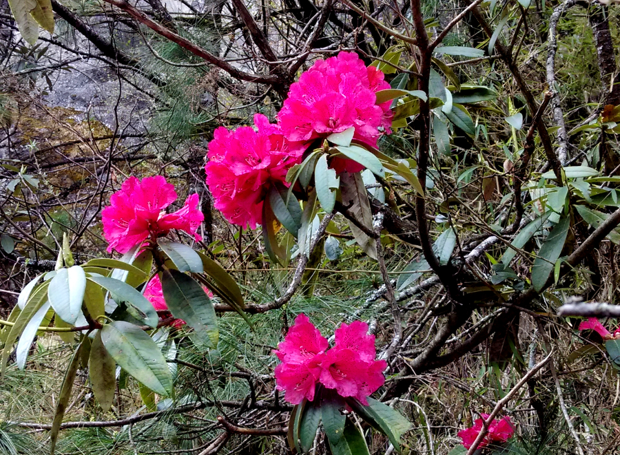 Rhododendron at Fakding,Nepal